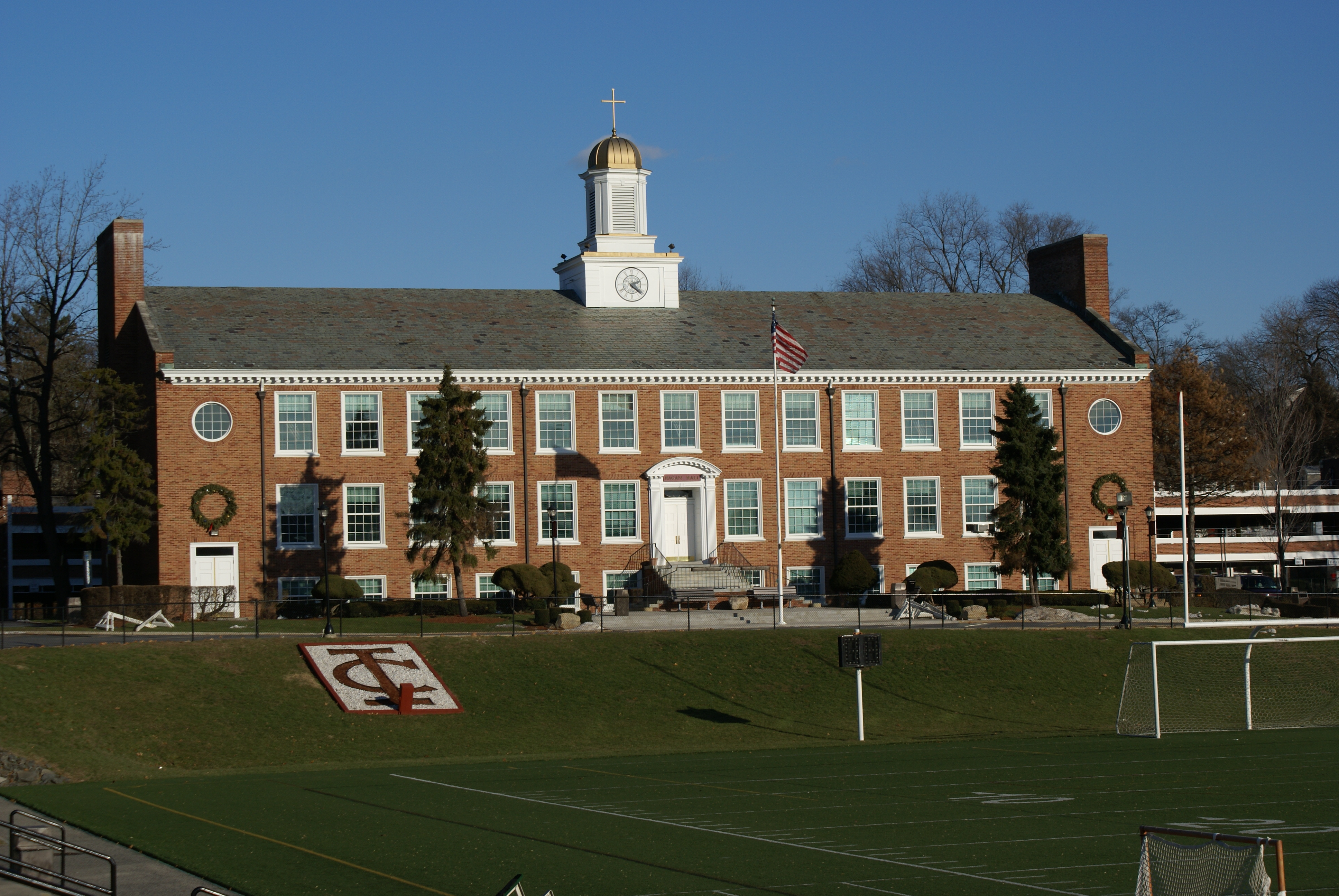 The Hagan School of Business at Iona College. Picture taken during Christmas season. This building was the home of Iona Prep from 1950 to 1967.